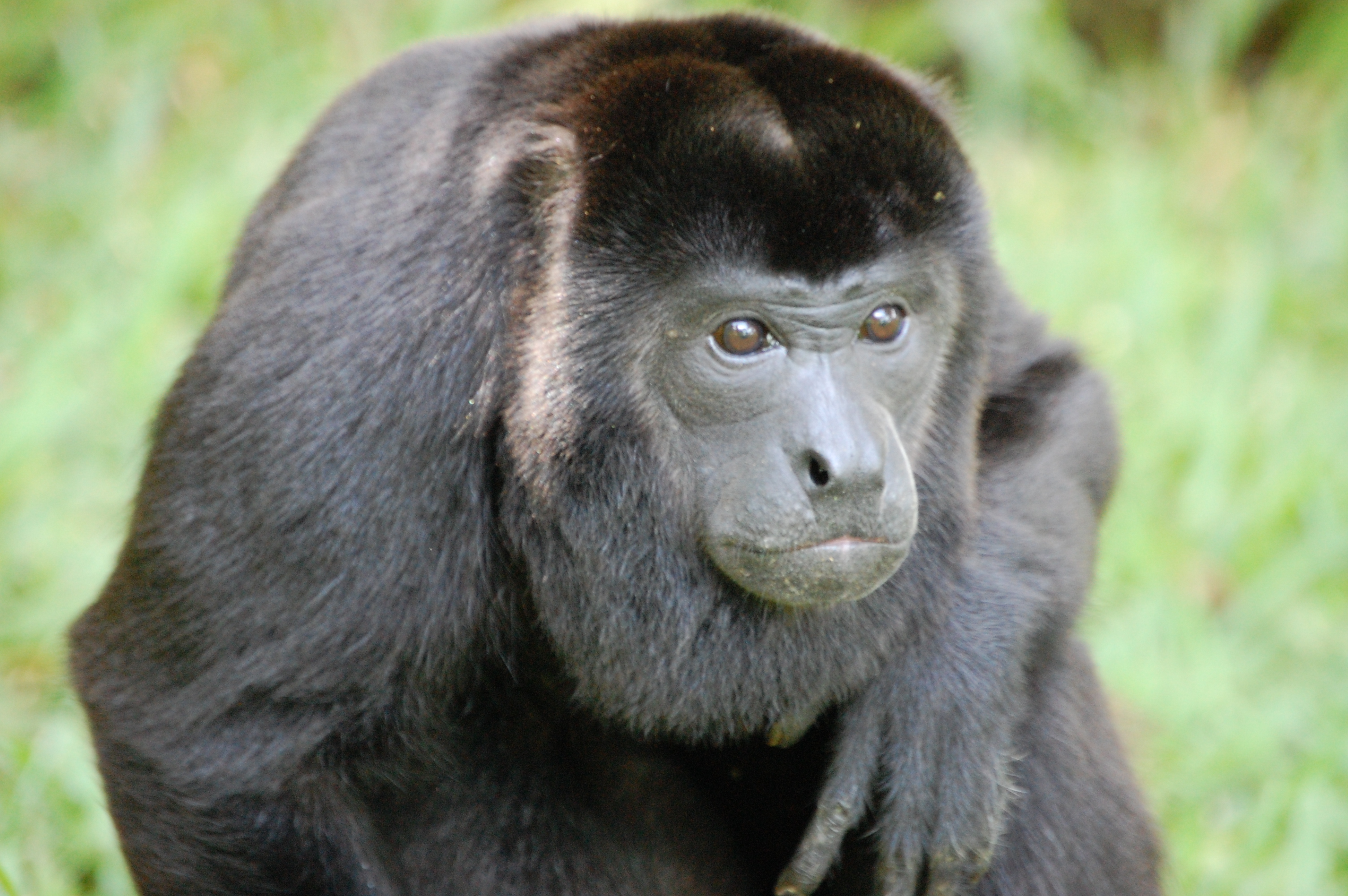 Male Howler monkey (Alouatta palliata) at the Caña Blanca wildlife sanctuary on the Golfo Dulce, Costa Rica. This individual had been partially reintroduced to the wild, but still occasionally wandered back into the sanctuary as in the photograph here.